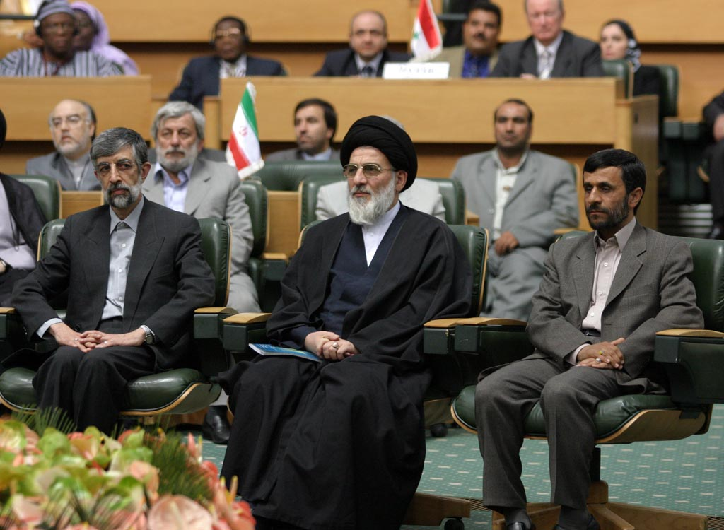 Ayatollah Khamenei's speech at the 3rd International Conference on Quds and Protecting the Rights of the Palestinian People, Iran- Tehran- April 2006